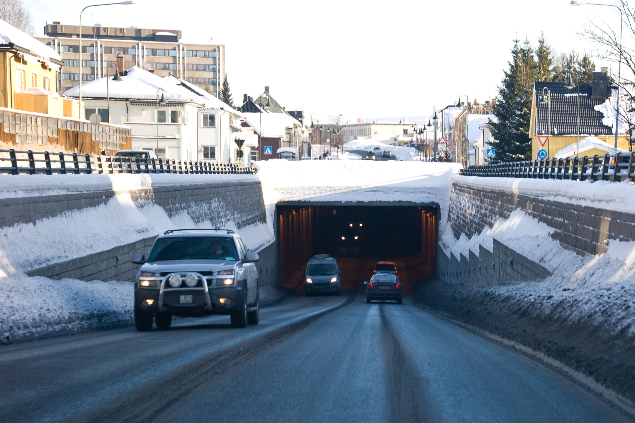 The Hamborgstrøm tunnel, which is connected to the Bragernes tunnel. Drammen, Buskerud, Norway